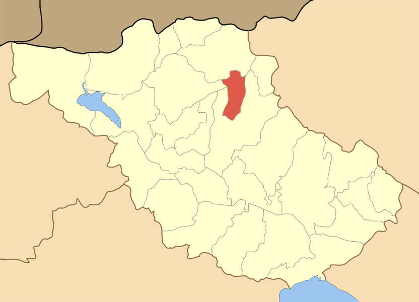 Locator map of Oreini township in Serres perfecture in Greece.